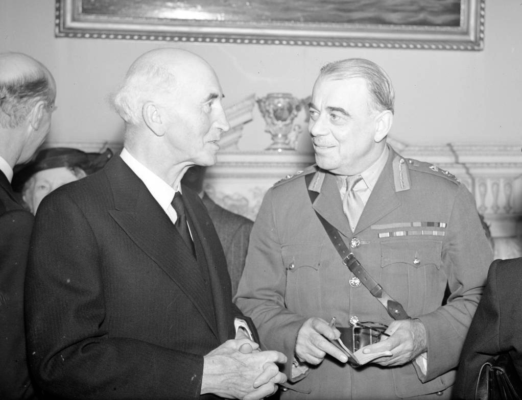 General Sir Hastings Ismay, 1st Baron of Wormington (1887 -1965): Ismay talking to Sir John Simon at a farewell dinner for Admiral Stark at the Royal Naval College, Greenwich.